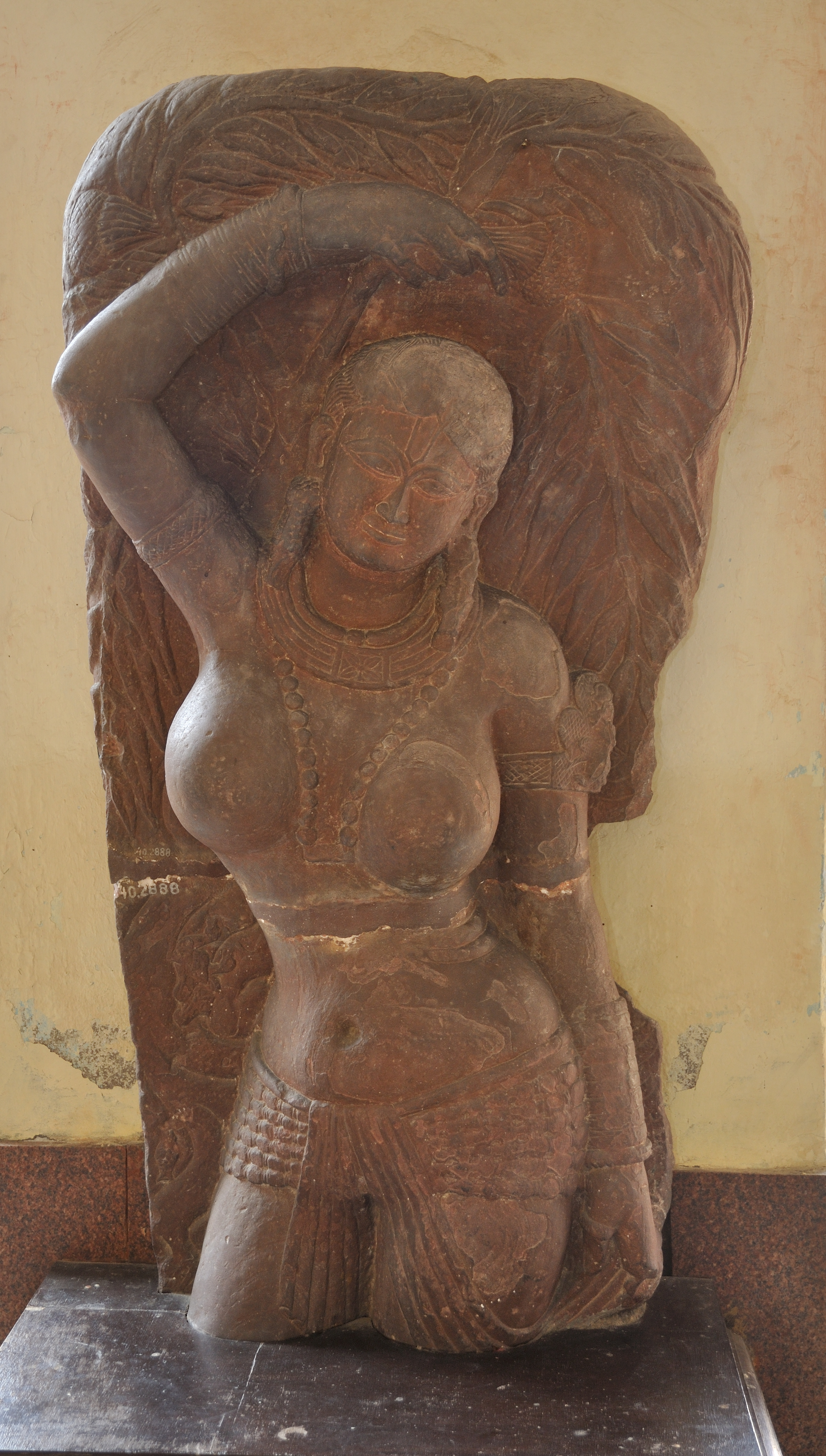 This artefact resides at the Government Museum, (hi: Rashtriya Sangrahalaya) formerly The Curzon Museum of Archaeology, Museum Road or Murari Lal Rajpal road, Dampier Nagar, Mathura, Uttar Pradesh, India. This museum is administrating by the State Government of Uttar Pradesh of India.